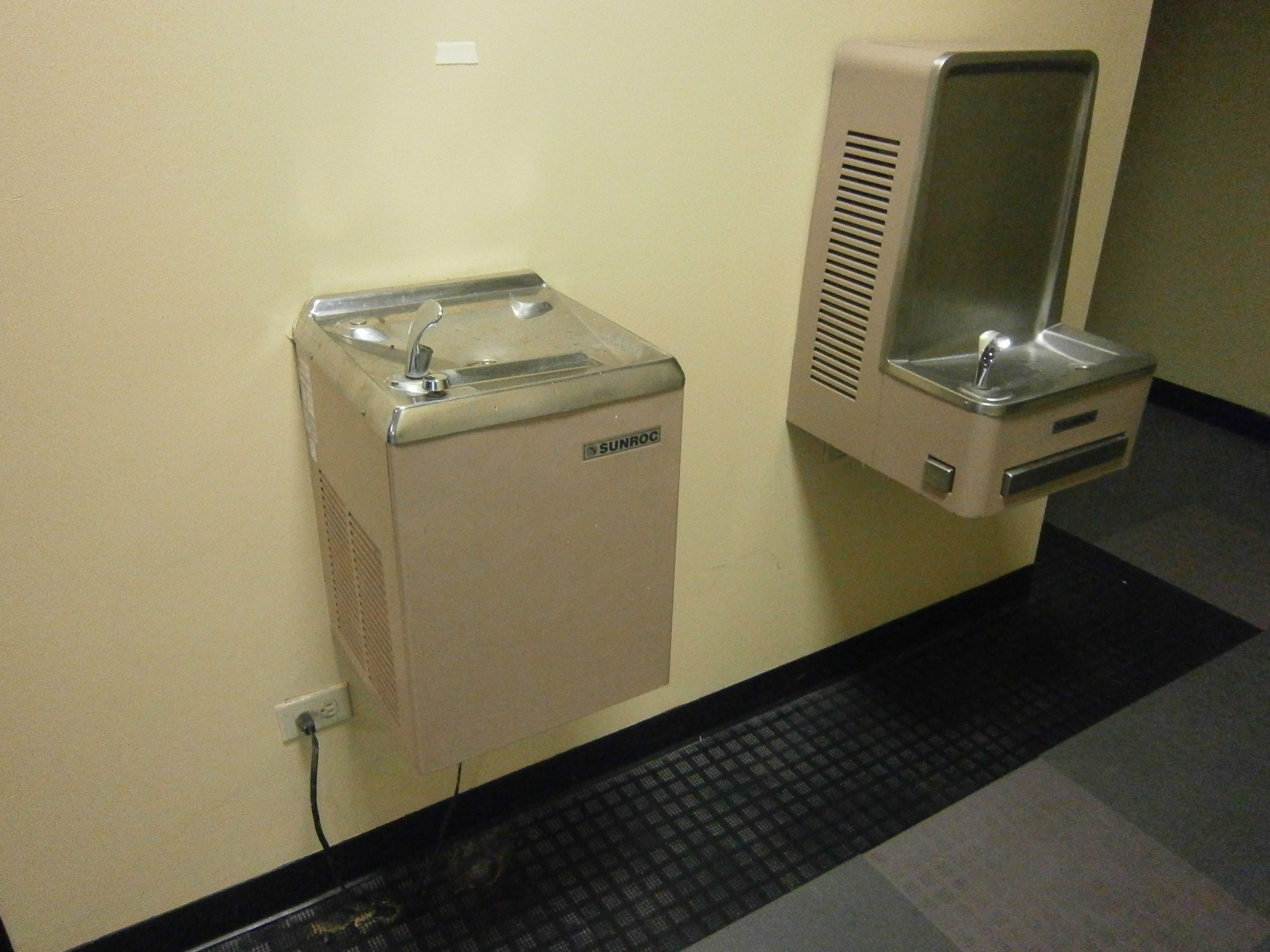 Two types of wall mounted Sunroc water coolers, one using a button for control, and the other using push pads on the front and sides.